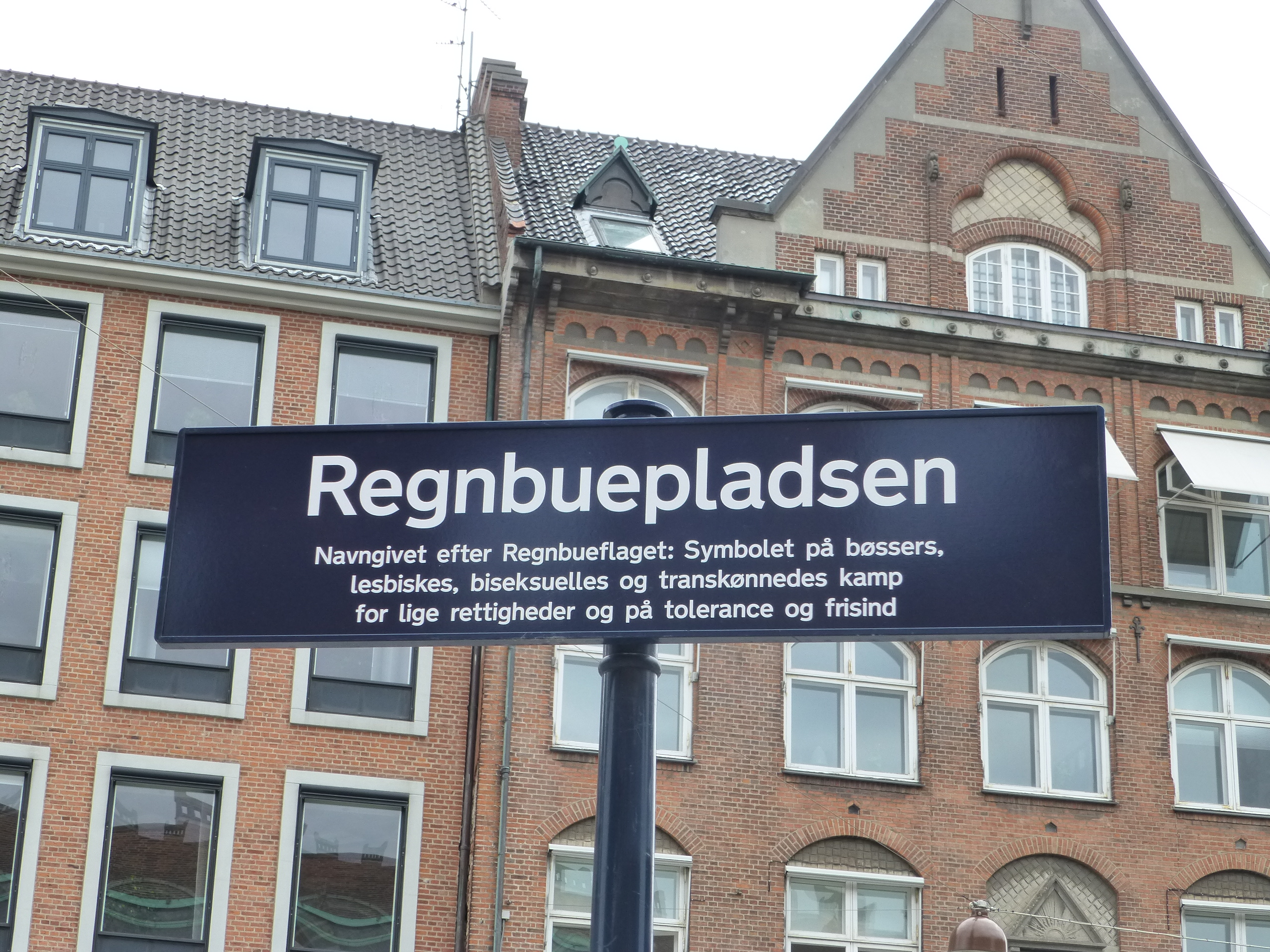 The square Regnbuepladsen in Copenhagen.